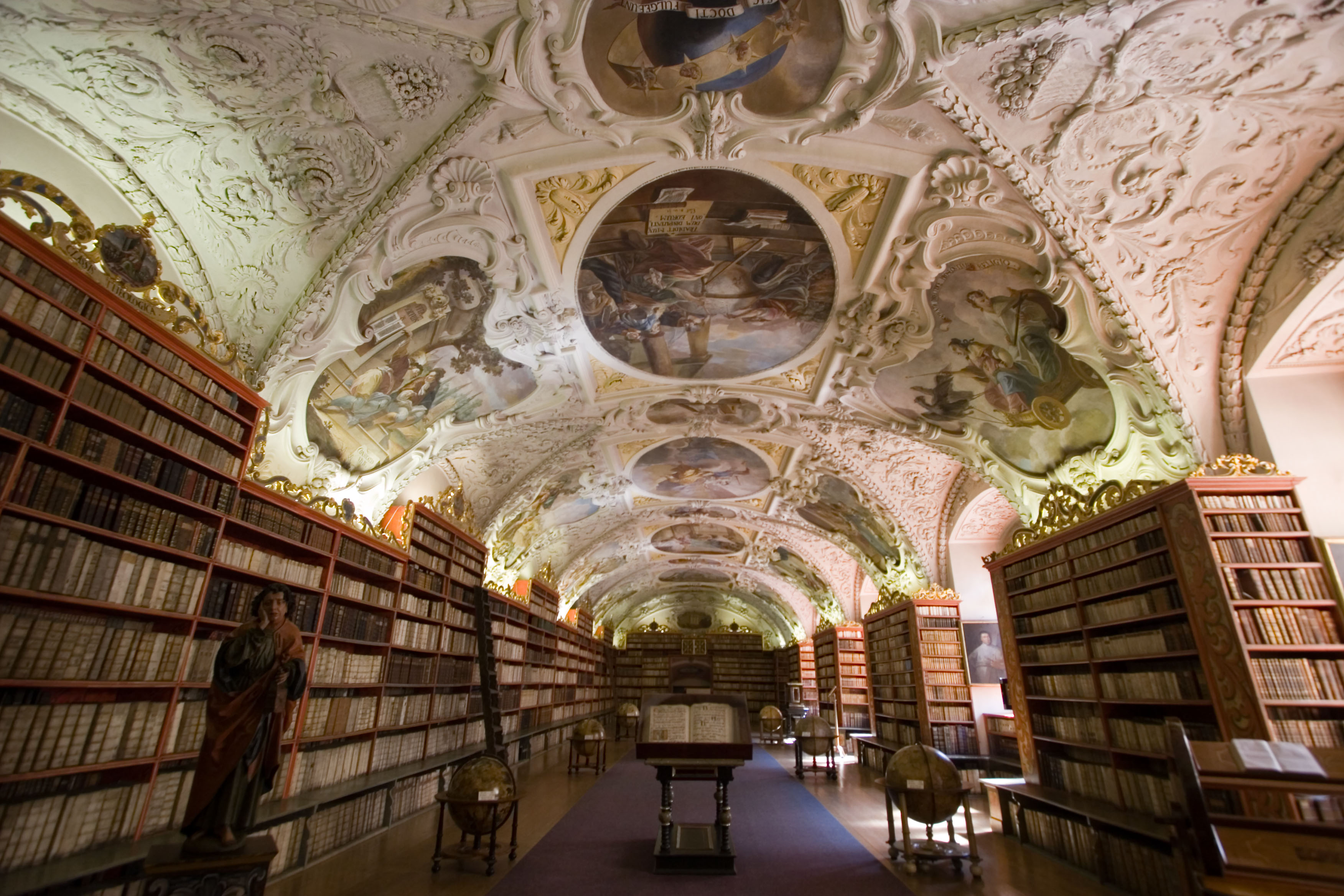 Strahovský klášter (Strahov Monastery) in Prague, Czech Republic. The Theological Library with stucco decoration and paintings from 1720s.